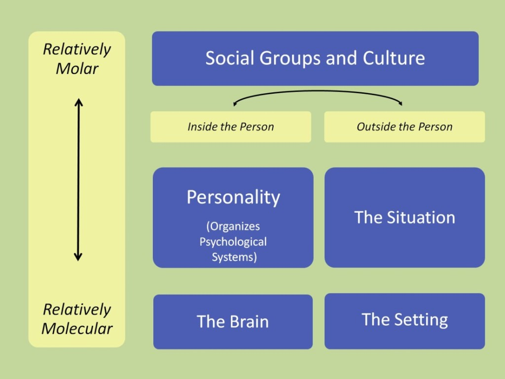 A Description of Personality’s Position (This section is based on an earlier description of Figure 1 and sometimes uses material verbatim, paraphrased, or lightly edited from p. 197 of Mayer & Allen, 2013)